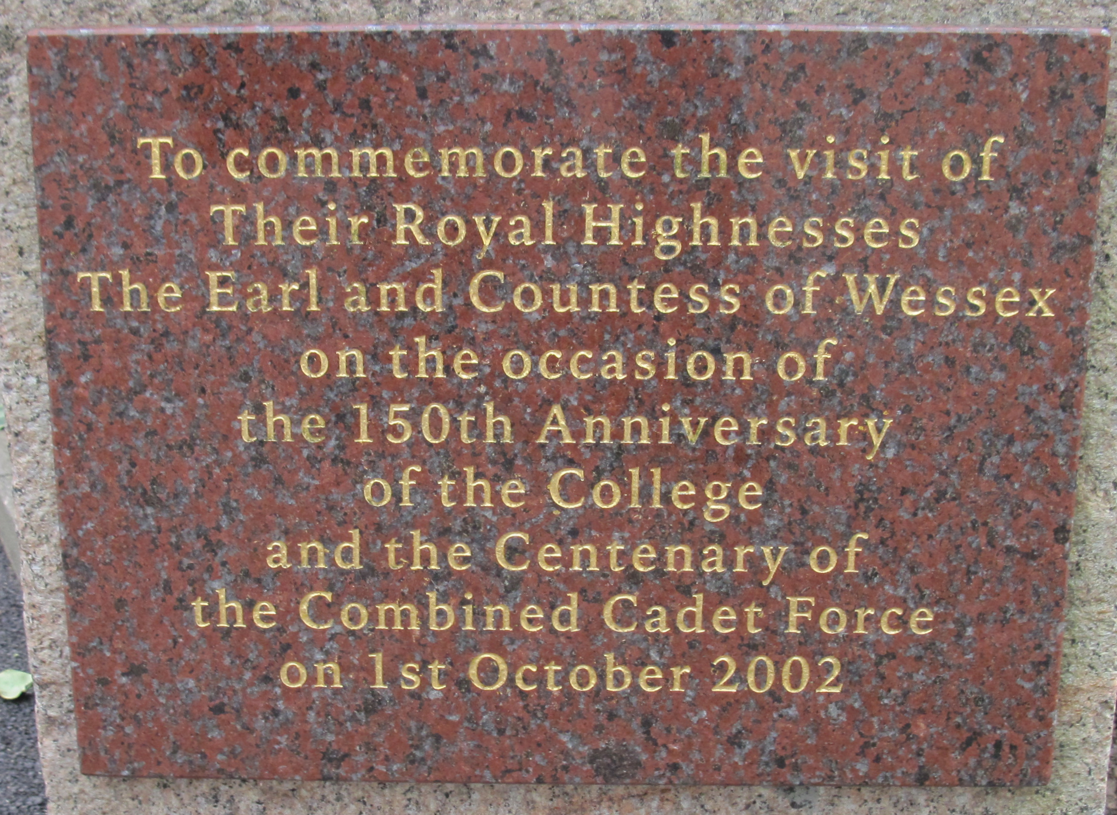 Victoria College, Jersey Nrf: Collège Victoria, Jèrri